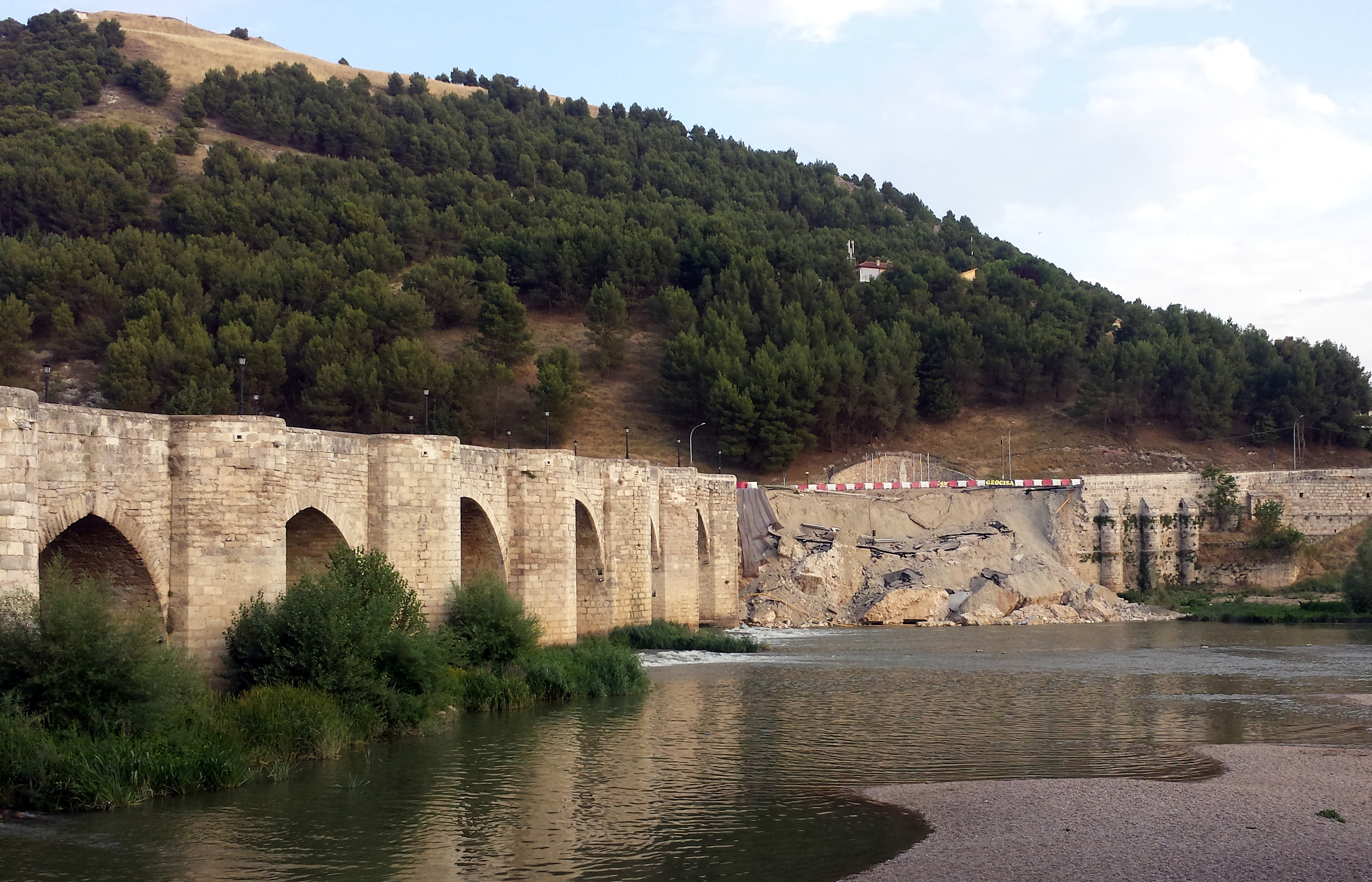 The bridge over the Pisuerga in Cabezón de Pisuerga, Valladolid, Spain. The bridge partially collapsed in june 2015.